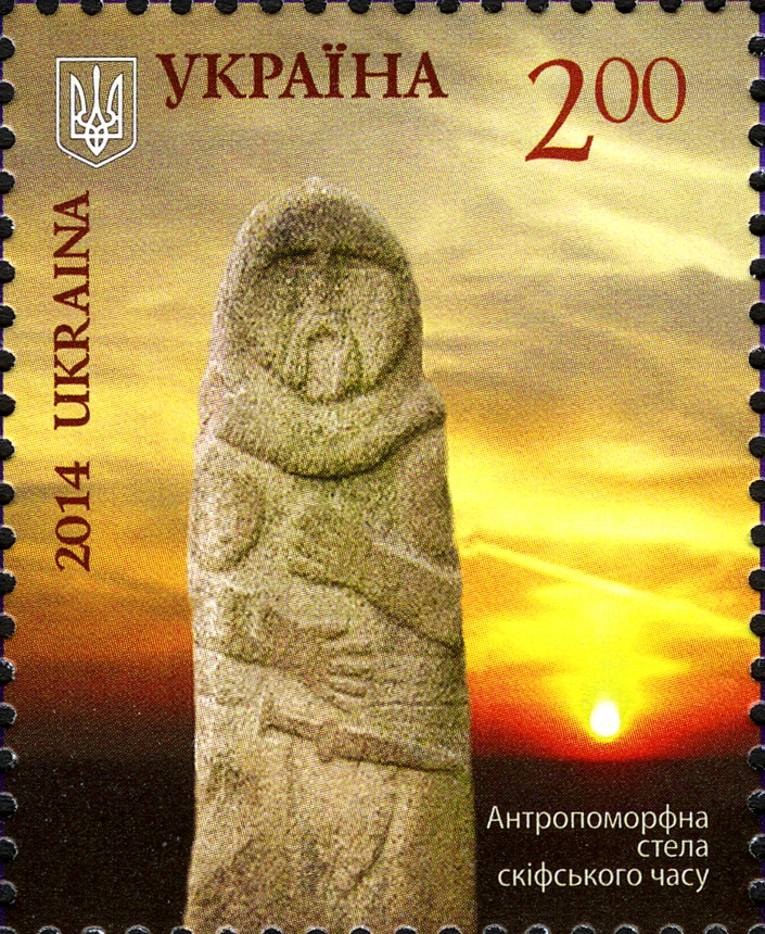 Stamps of Ukraine, 2014